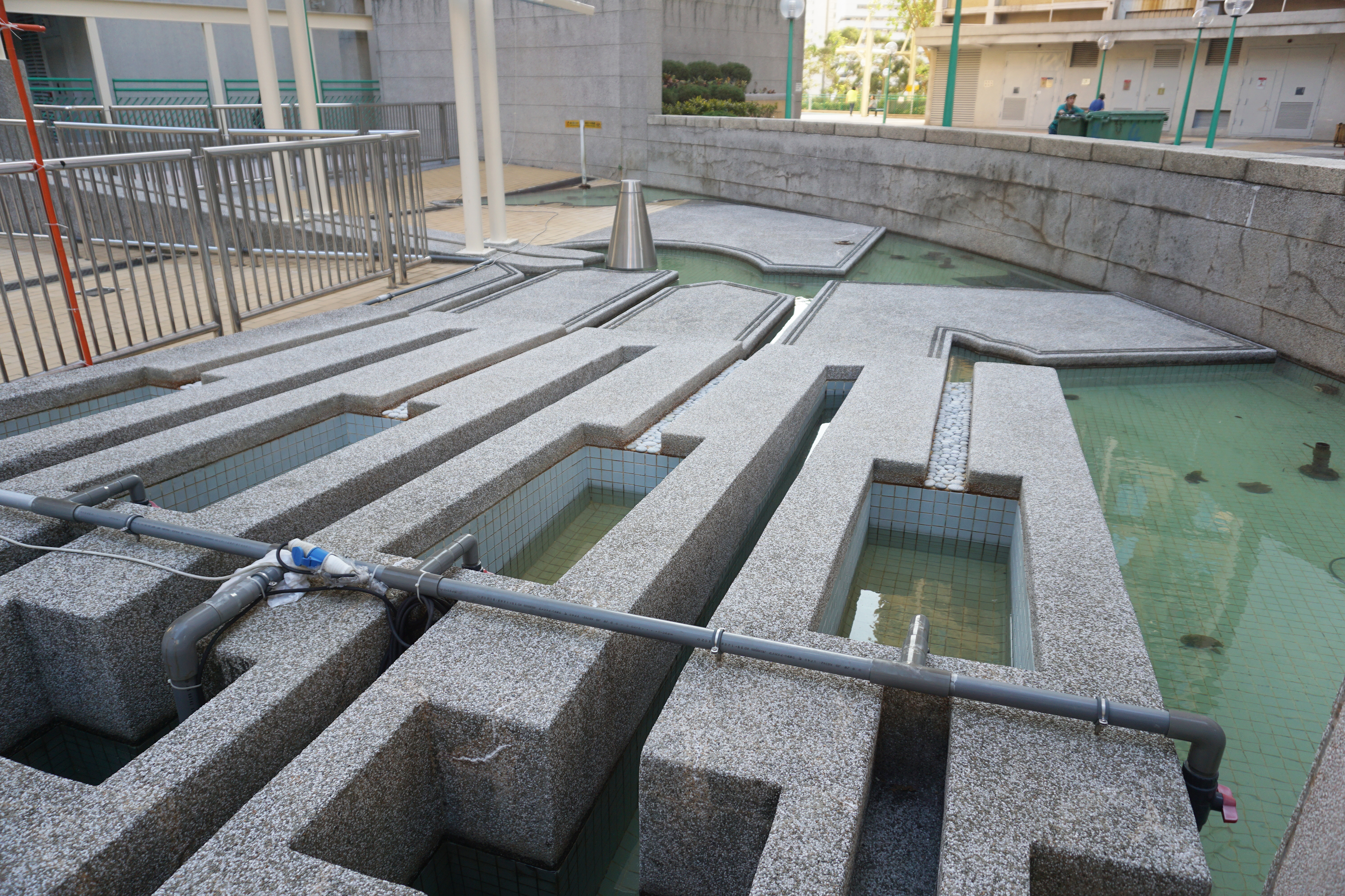 Hiu Lai Court in Sau Mau Ping, Hong Kong.